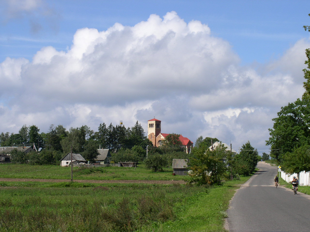 Khotaw, Belarus.